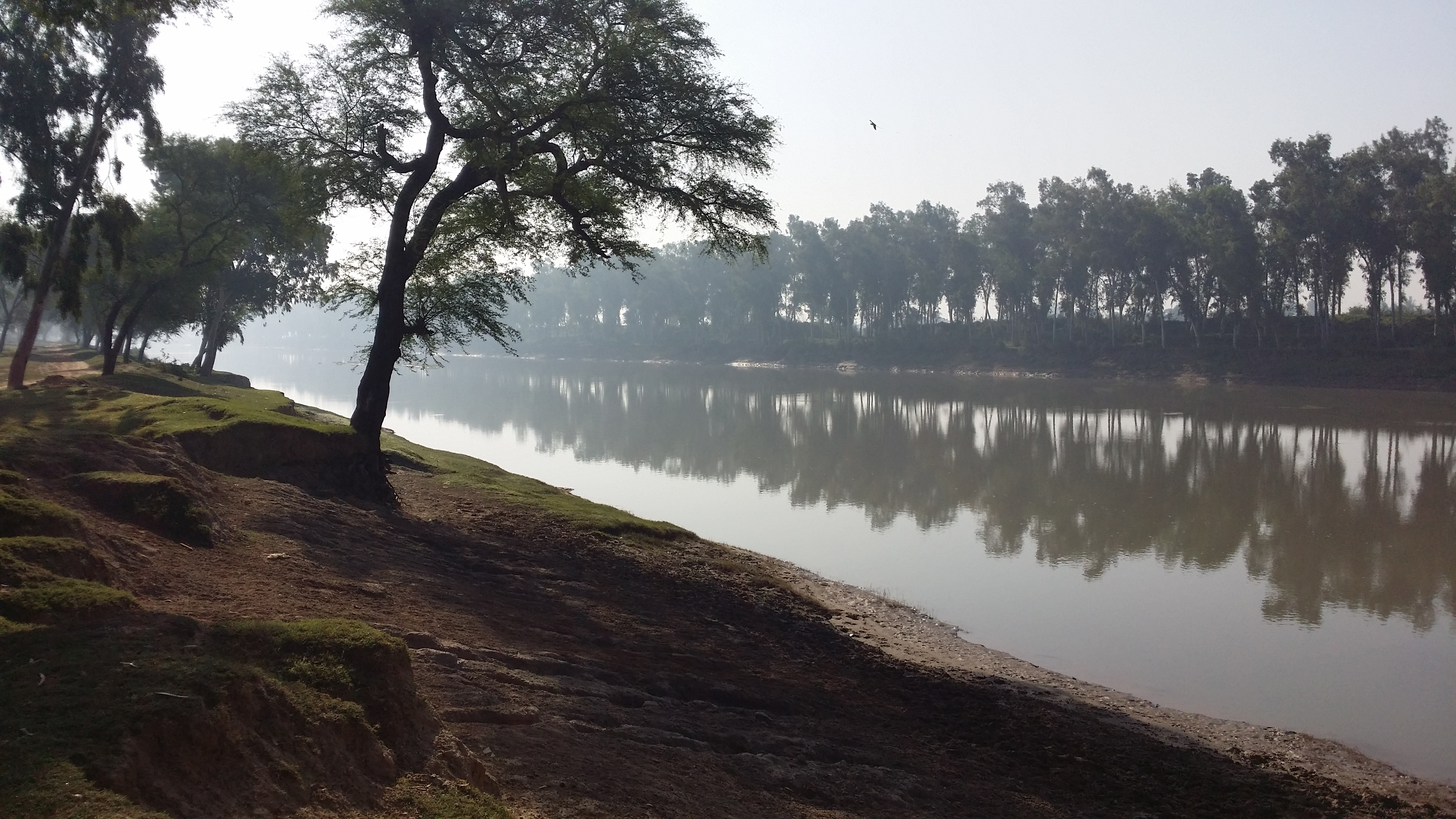 Canal Tree View Kalekay Nagra